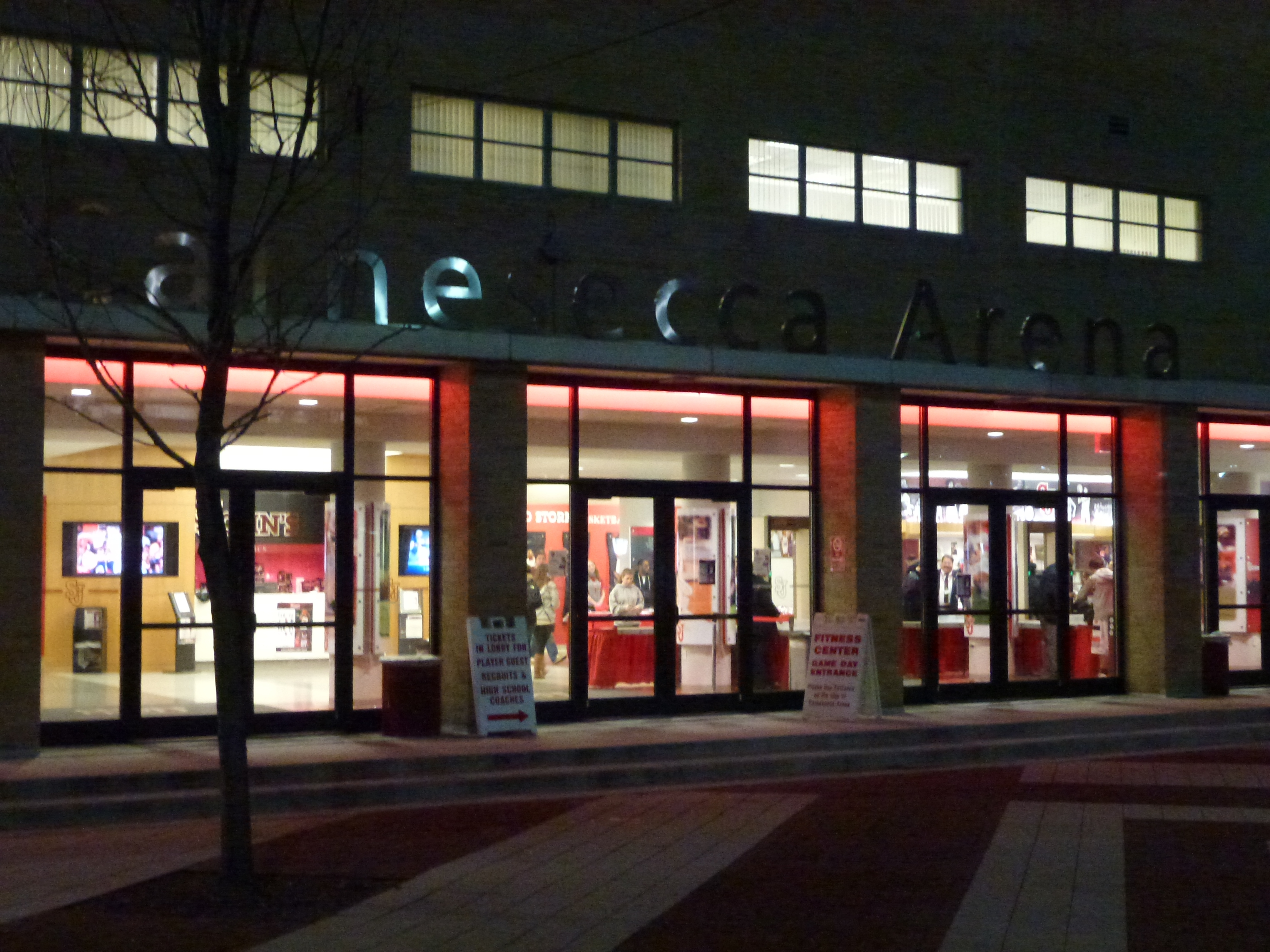 This is the facade of the Carnesecca Arena, on the St. John's campus. named after Lou Carnesecca, the long time coach of the St. John's men's basketball team.